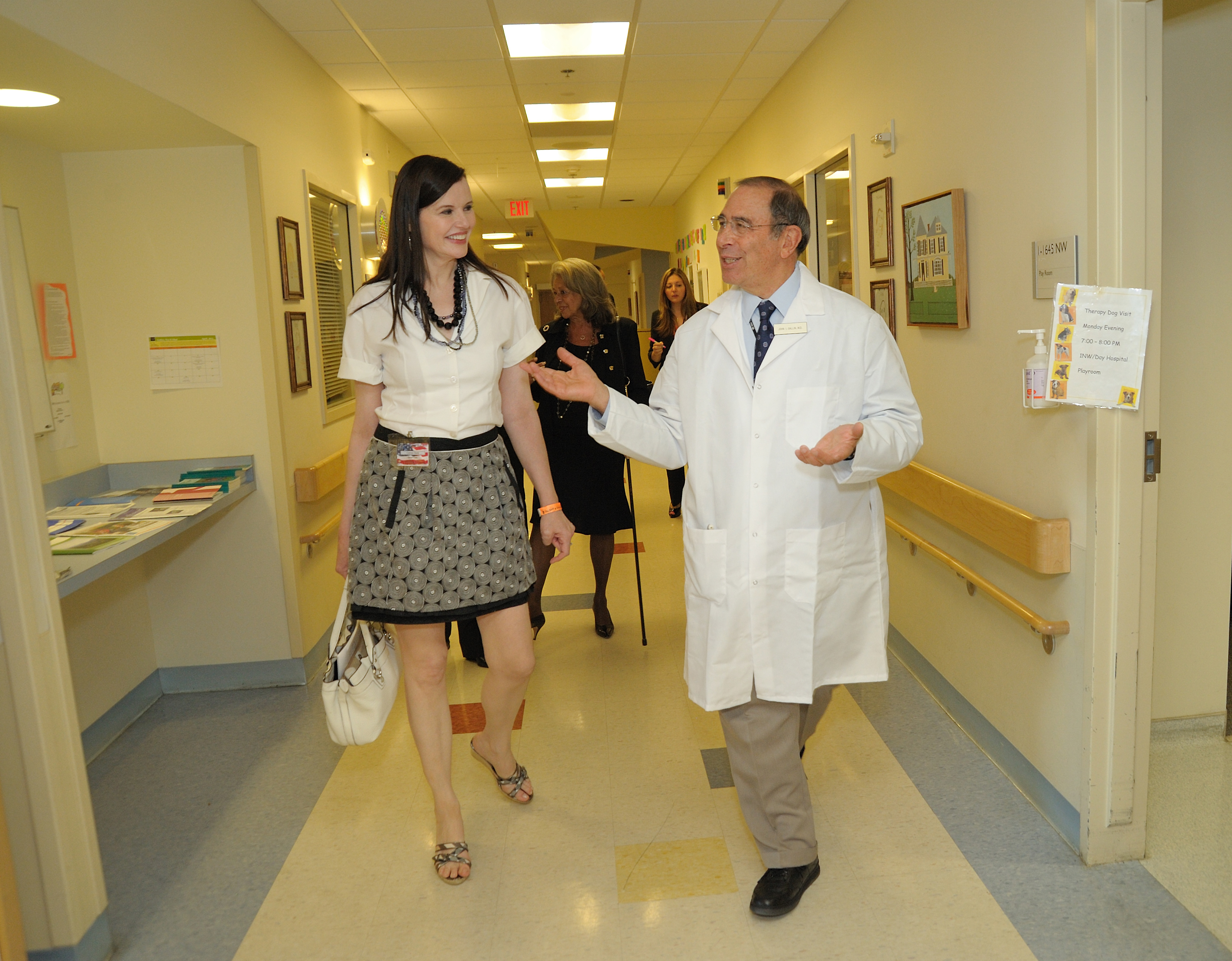 Actor Geena Davis visited the NIH in April 2011 to discuss the Geena Davis Institute on Gender in the Media.